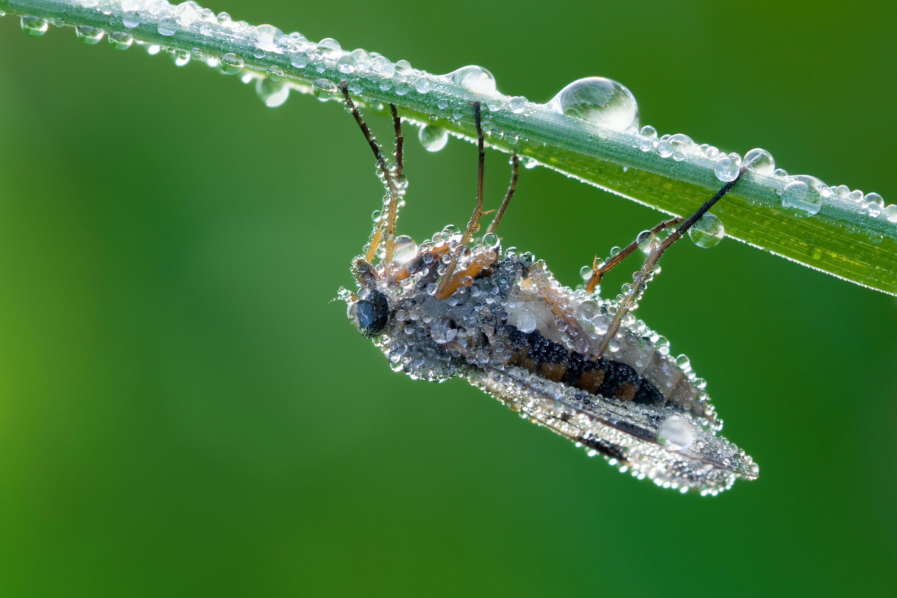 Snipe fly (Rhagio scolopaceus) Rhagionidae or snipe flies are a small family of flies containing 21 genera.